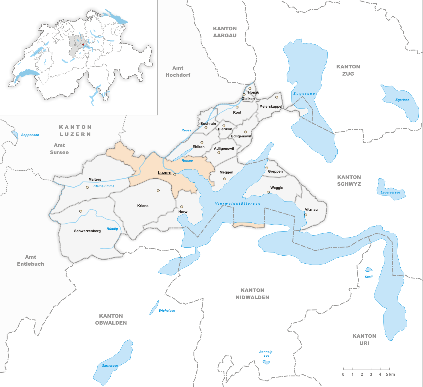 Municipality Luzern